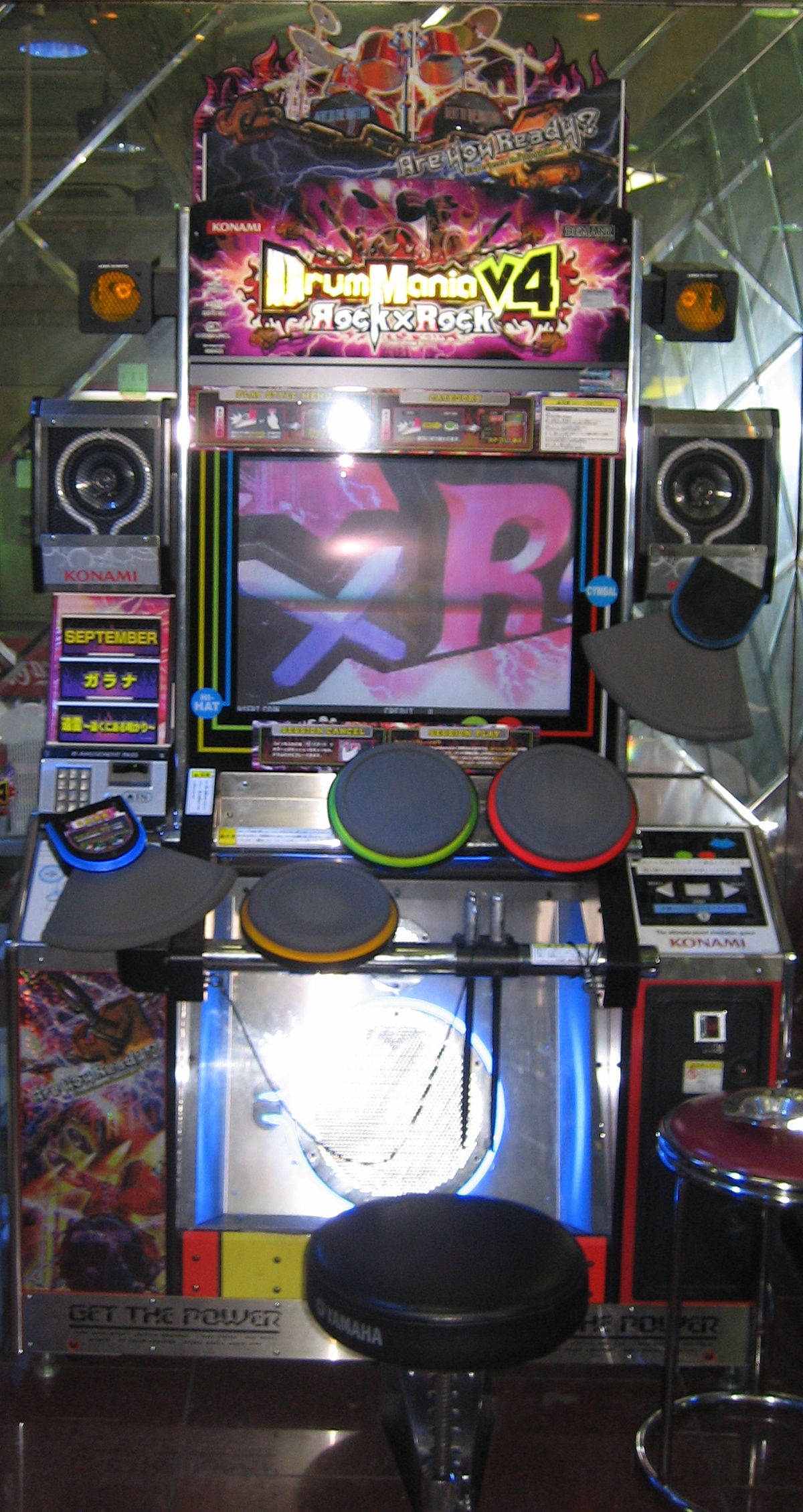 A DrumMania V4 Rock x Rock arcade machine